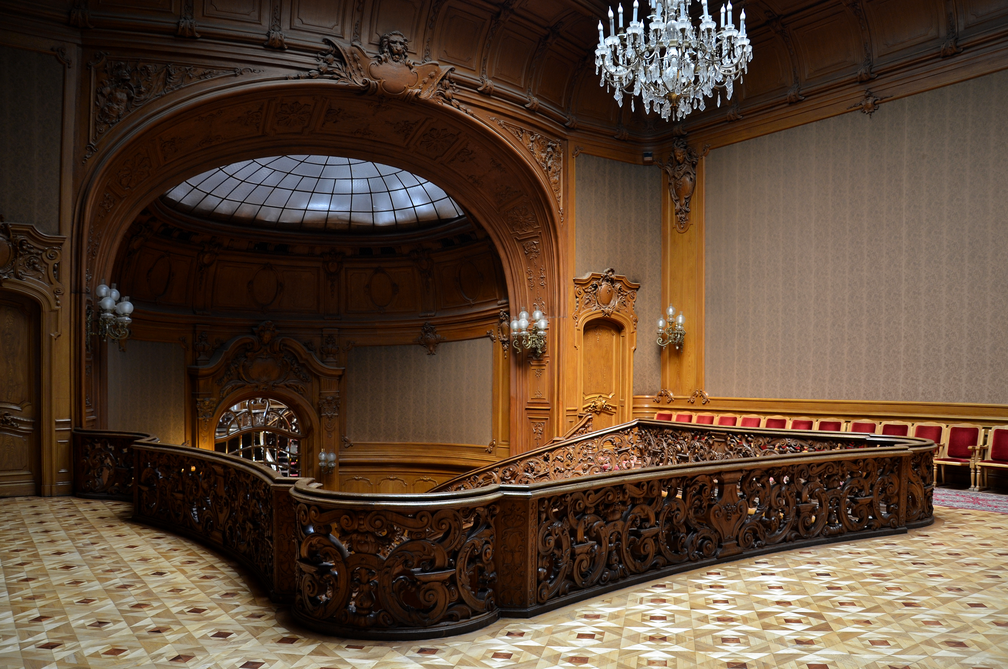 House of scientists, Lviv, Ukraine